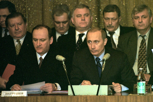 MOSCOW. President Putin at an extended meeting of the board of the Federal Security Service. President Putin with Nikolai Patrushev, Director of the Federal Security Service.